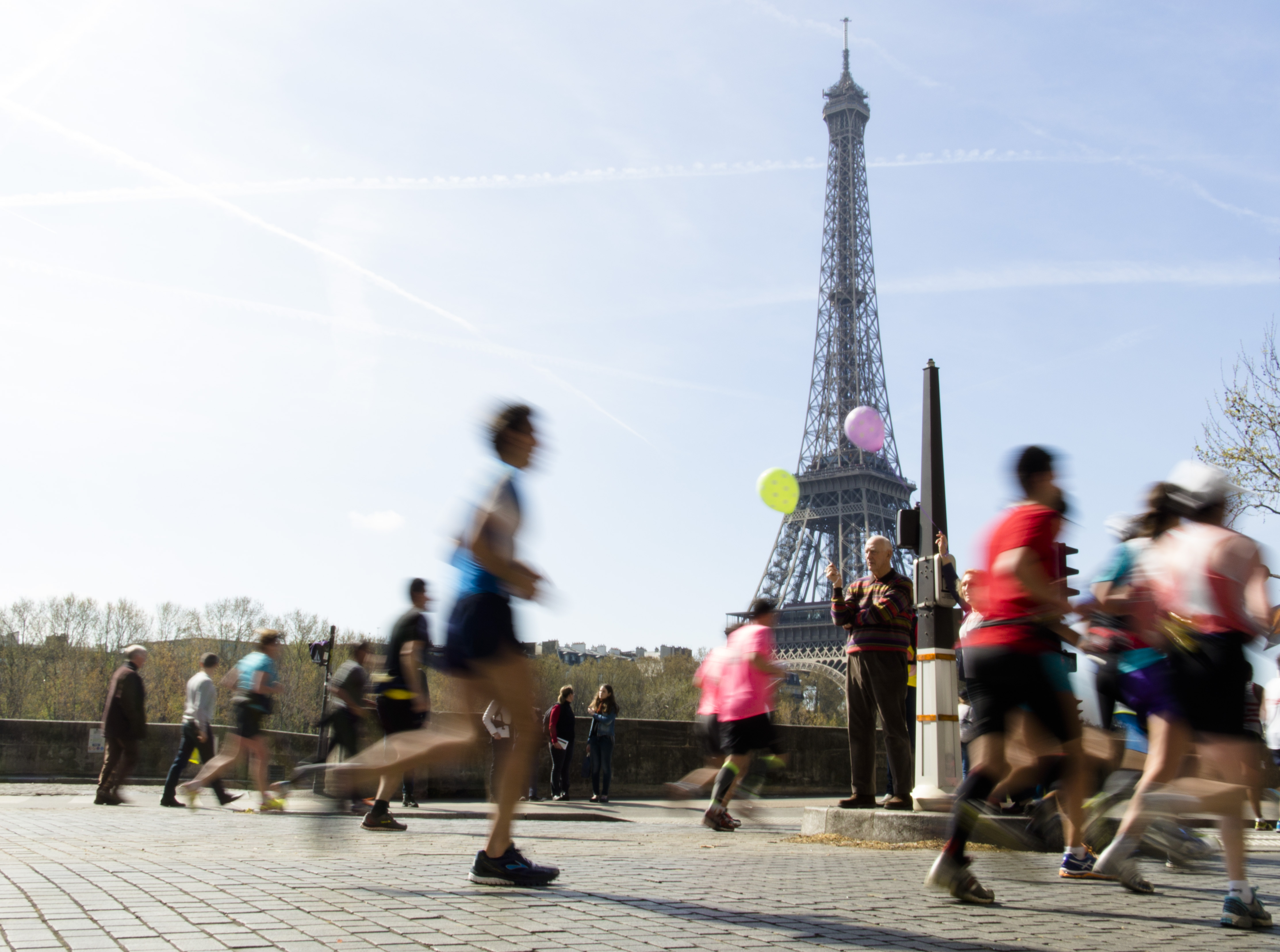 2015 Paris Marathon, April 12, 2015.